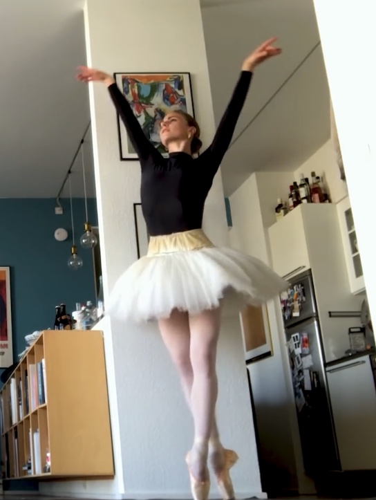 32 premier ballerinas from 22 dance companies in 14 countries perform Le Cygne (The Swan) variation sequentially with music by Camille Saint-Saëns, performed by cellist Wade Davis, in support of Swans for Relief. Organized by Misty Copeland and Joseph Phillips, 100% of the funds raised will be distributed to each dancer’s company’s COVID-19 relief fund, or other arts/dance-based relief fund in the event that a company is not set up to receive donations. To donate please visit, Ballet companies are largely dependent on revenue from performances to pay their dancers and fund their operations, but due to the coronavirus pandemic, all performances have been halted. Consequently, many dancers are unable to depend on paychecks and are facing the hardship of paying rent and/or buying food and other necessities. Le Cygne (The Swan) with music by Camille Saint-Saëns, performed by cellist Wade Davis (USA), choreography by Michel Fokine by kind permission of the Fokine Estate-Archive.